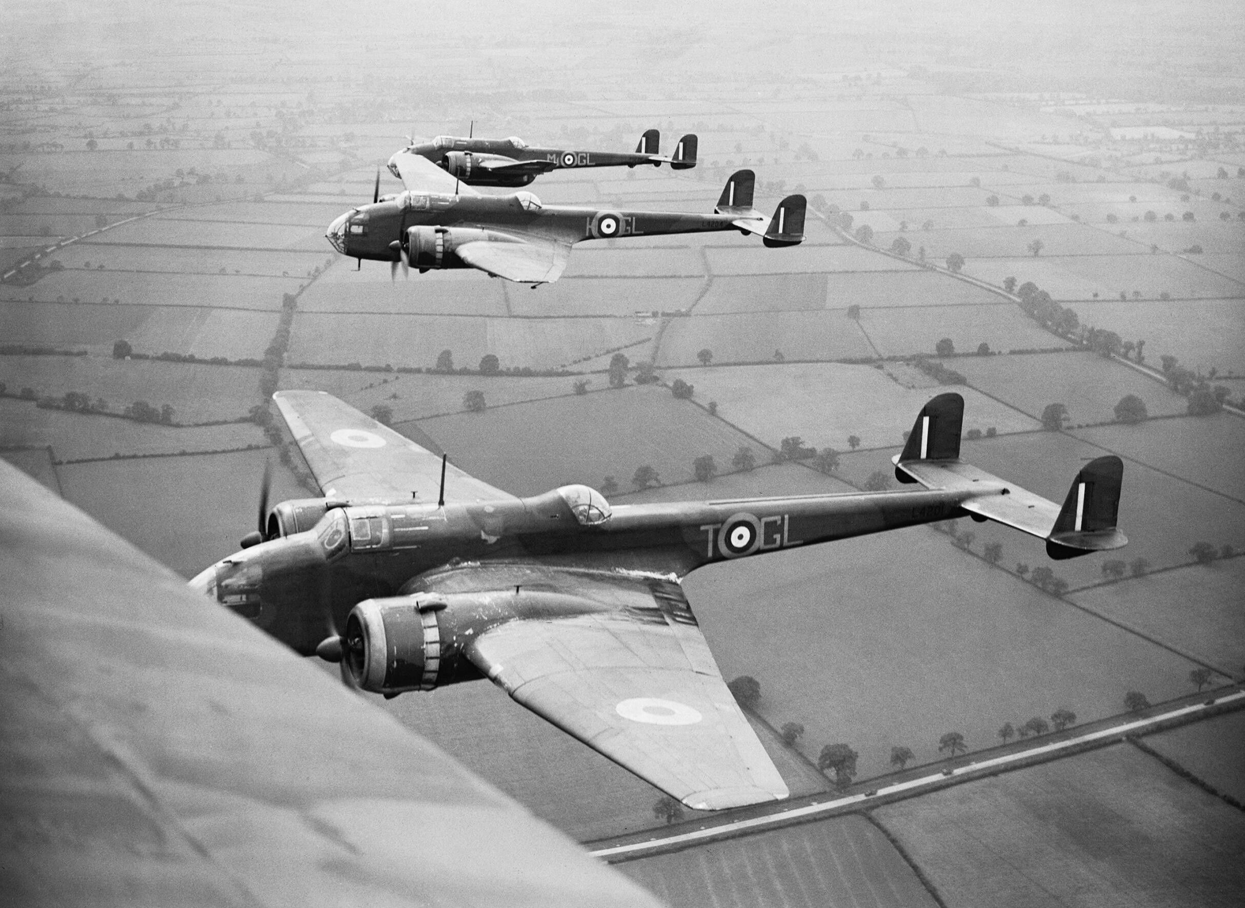 Royal Air Force 1939-1945- Bomber Command A gunner's view of a formation of Hampdens of No 14 Operational Training Unit (OTU), based at Cottesmore, 23 July 1940.